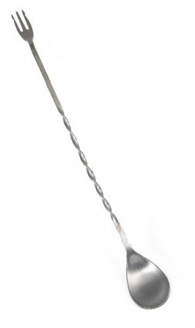 Bar spoon with a forck